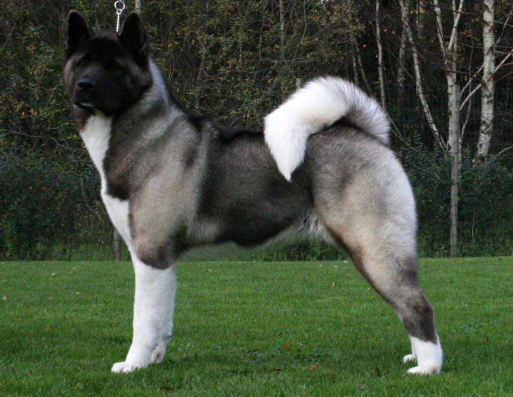 american akita